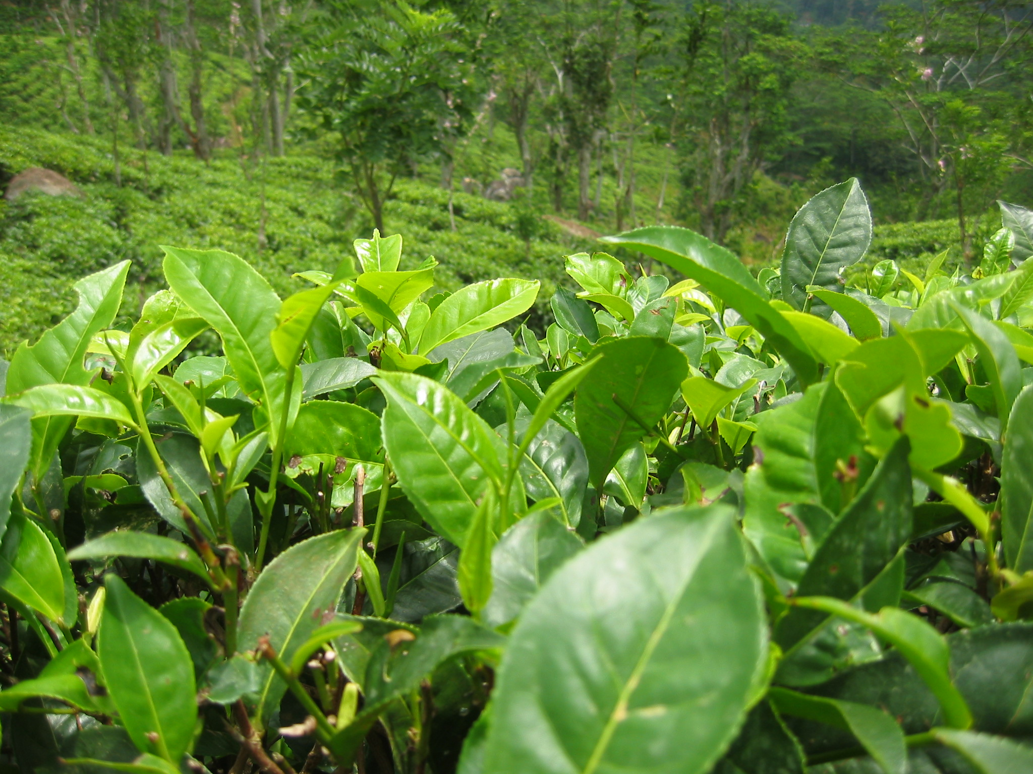 Tea plant in a tea plantation